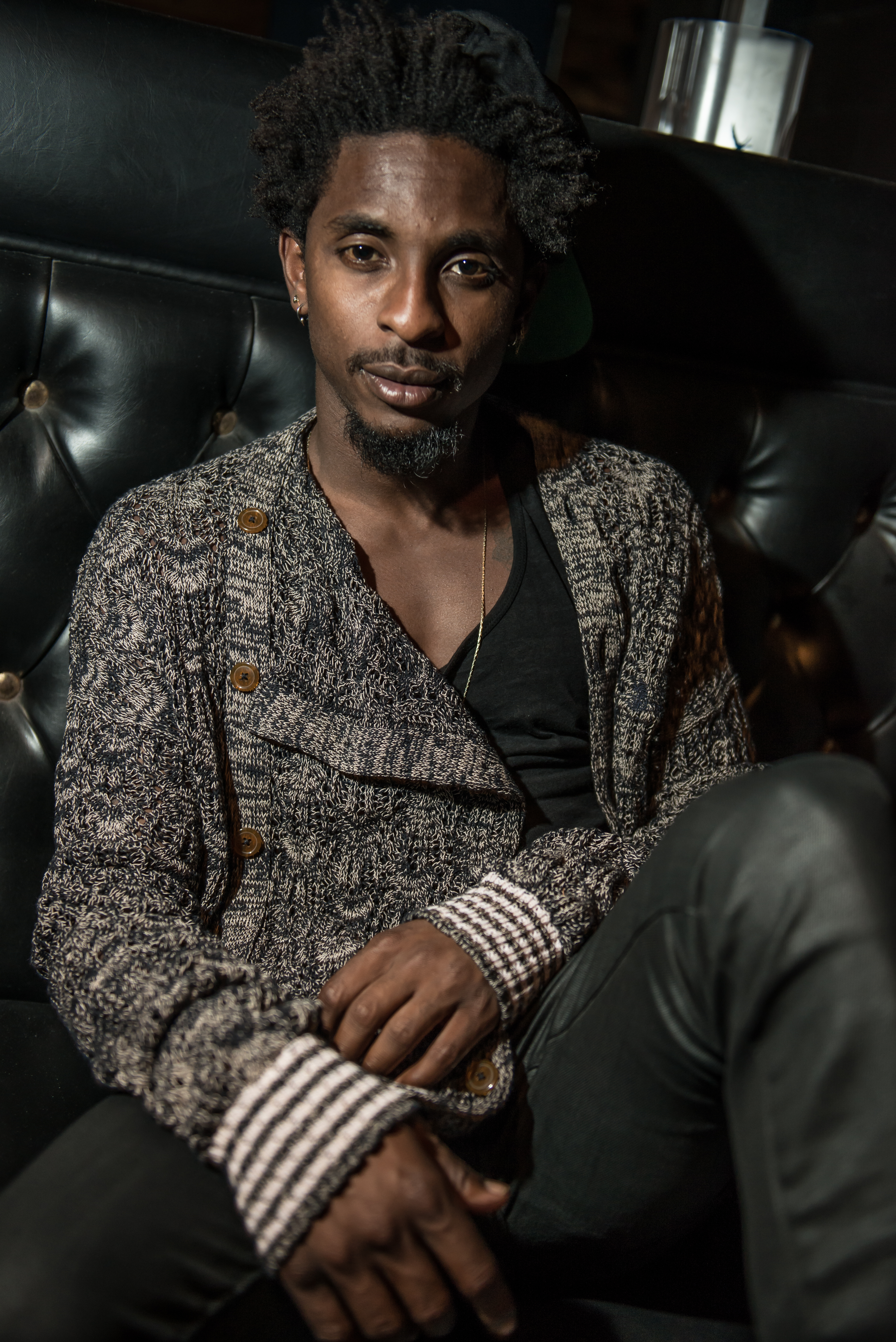 Shwayze at Nextdoor, Honolulu, Hawaii, July 25, 2014